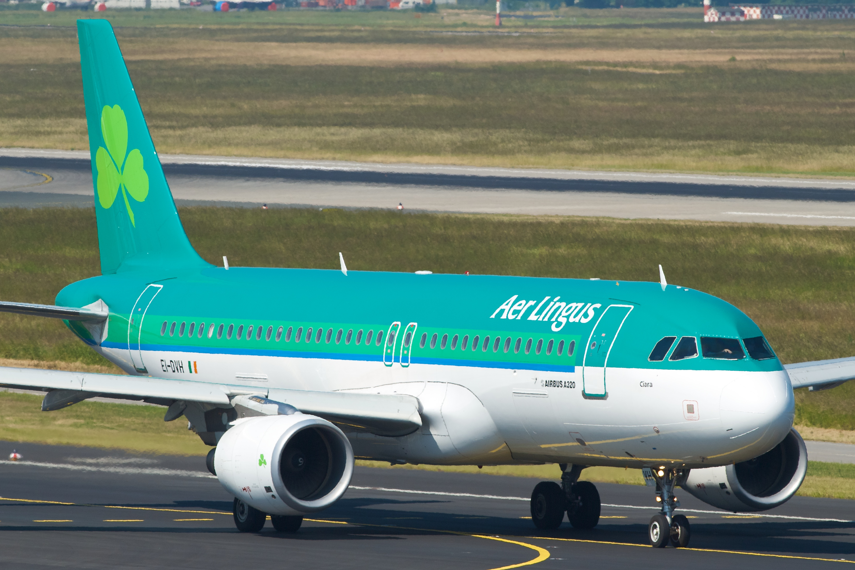 Aer Lingus A320 EI-DVH in Düsseldorf International Airport.